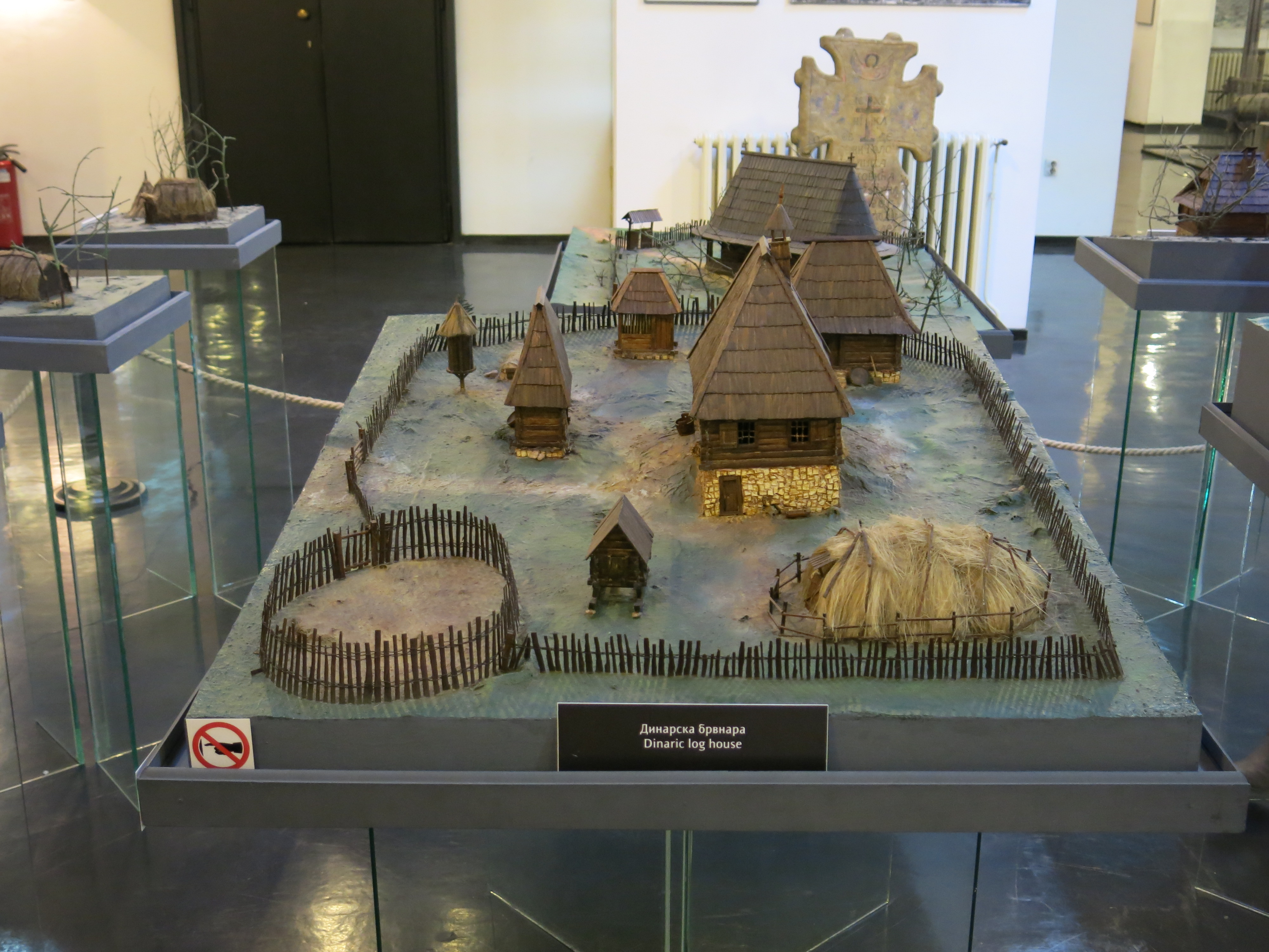 Ethnografic Museum in Belgrade, Serbia